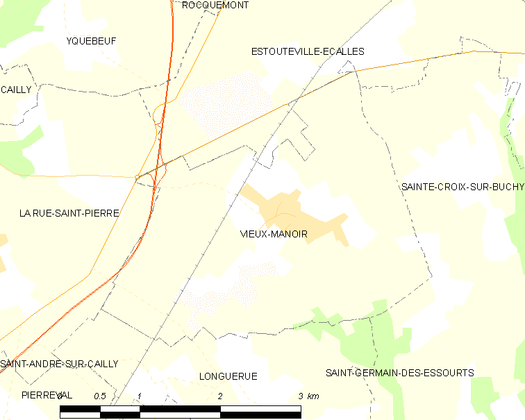 Map of French municipality Vieux-Manoir